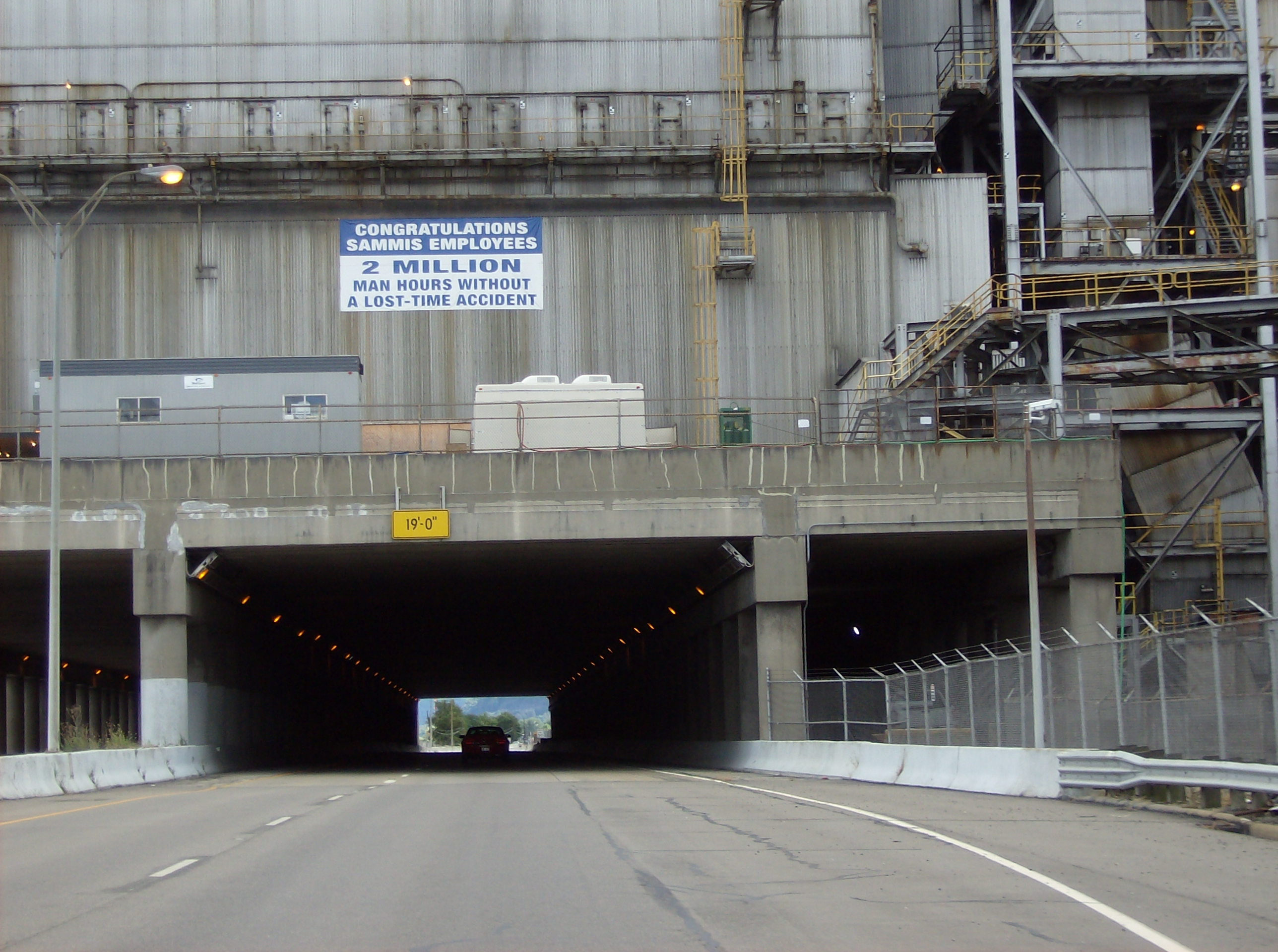 Along southbound State Route 7 at its tunnel under the W. H. Sammis Power Plant in Stratton, Ohio, United States, near the Ohio River.